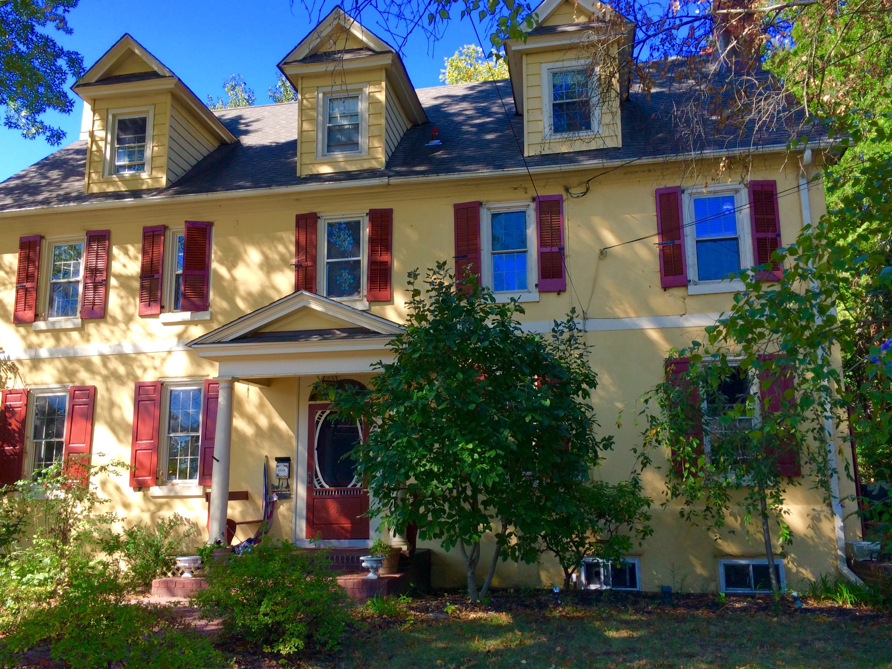 Stokes-Lee House, 615-617 Lees Ave. Collingswood